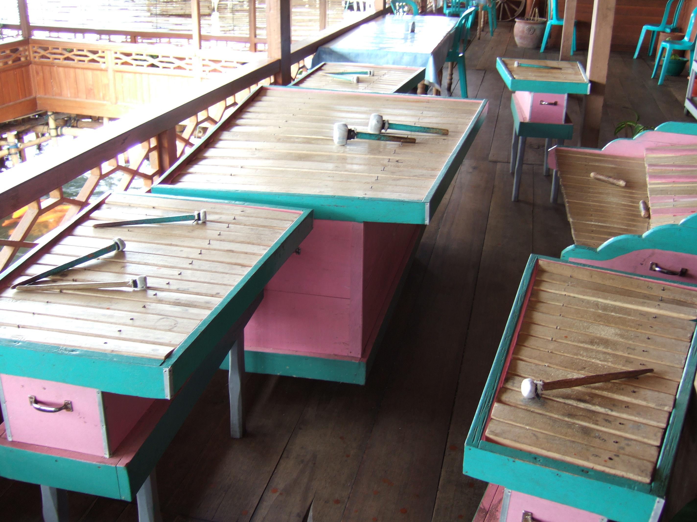 Kolintang set. Picture taken in Tondano, North Sulawesi, Indonesia